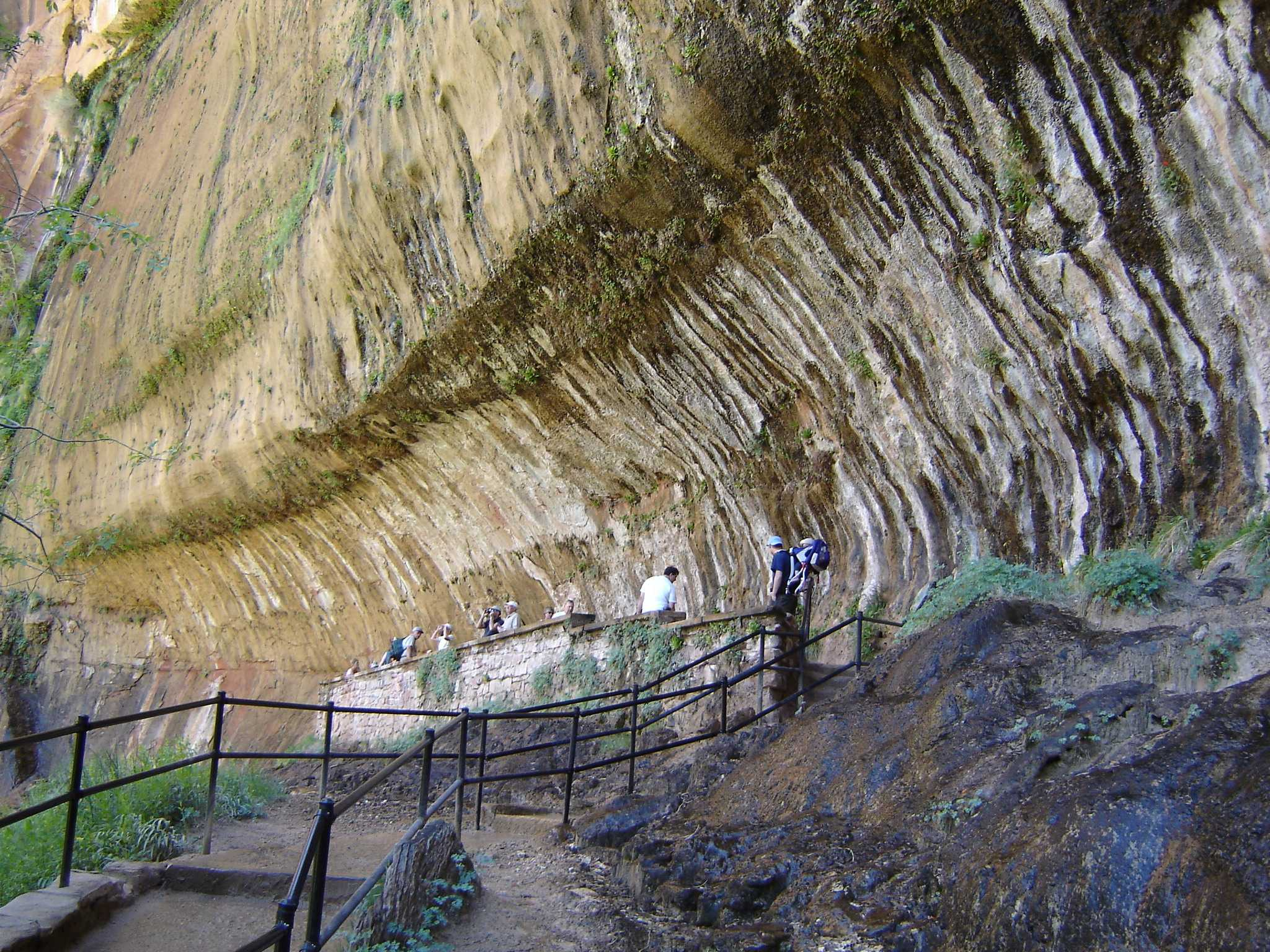 Temple of Sinawava, The Narrows (Zion National Park)